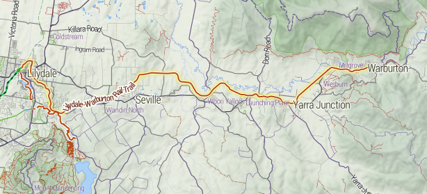 Map of Lilydale to Warburton Rail Trail. Cartography by Steve Bennett, data by OpenStreetMap contributors.